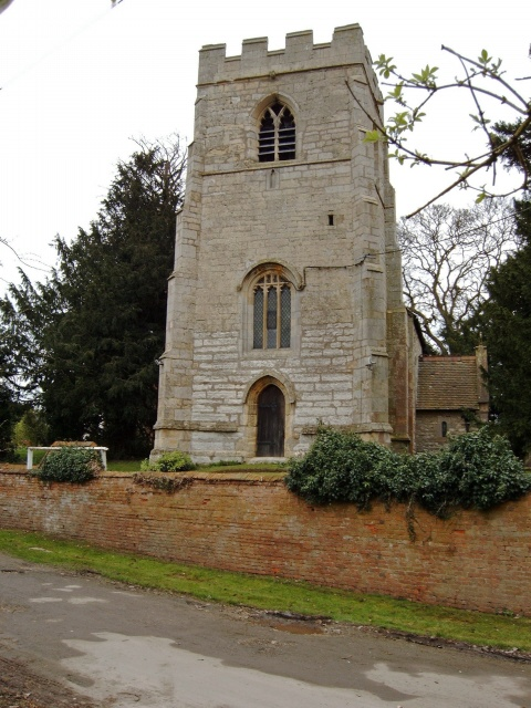 Church of St. Nicholas, Hockerton. This 12th century church stands almost hidden from the busy A617 Mansfield Road down a short farm access road.